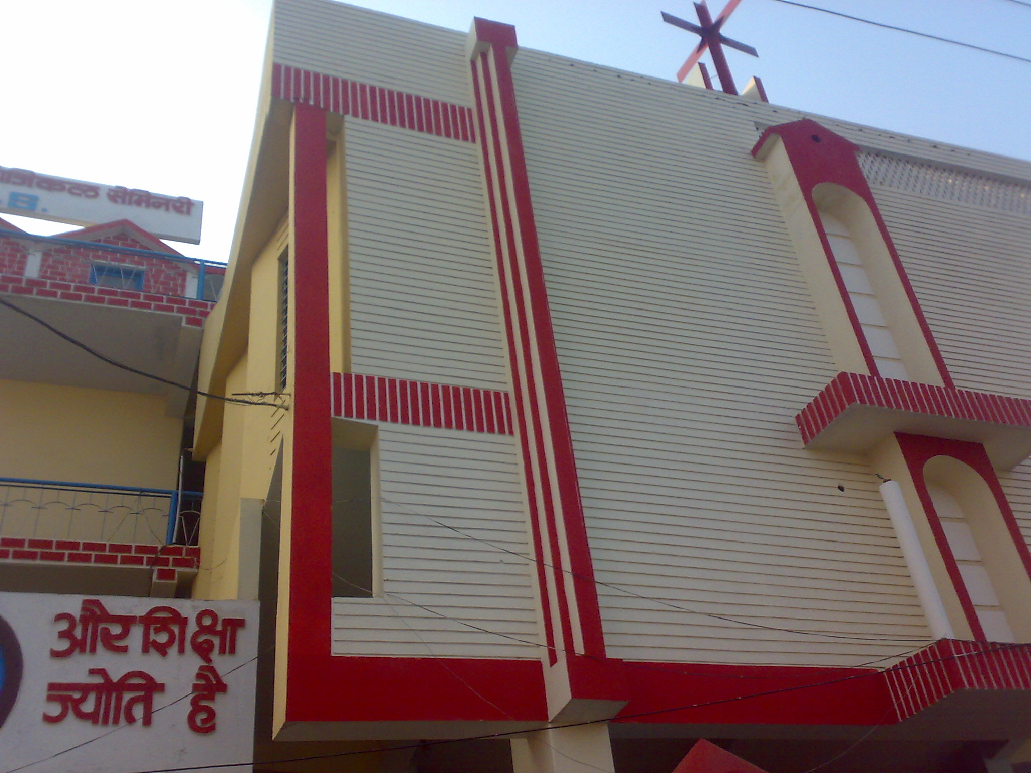 Front view of Central India Theological Seminary Building Office and Classes Block. This block hosts classes and offices. Other blocks include Women's Hostel, Men's Hostel, Staff Quarters, Dispensary, and Guests Quarters.